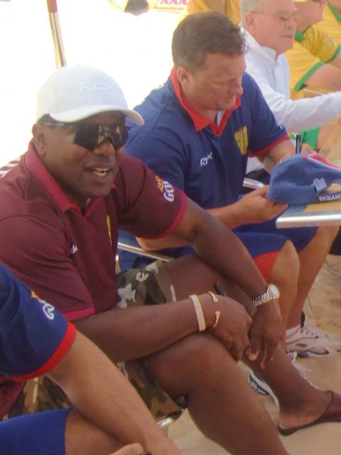 Desmond Haynes and Darren Gough